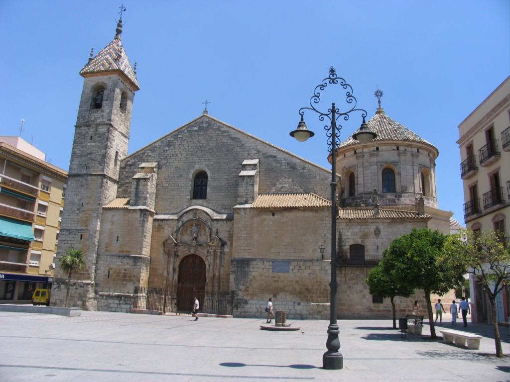 San Mateo Church, in Lucena (Spain).